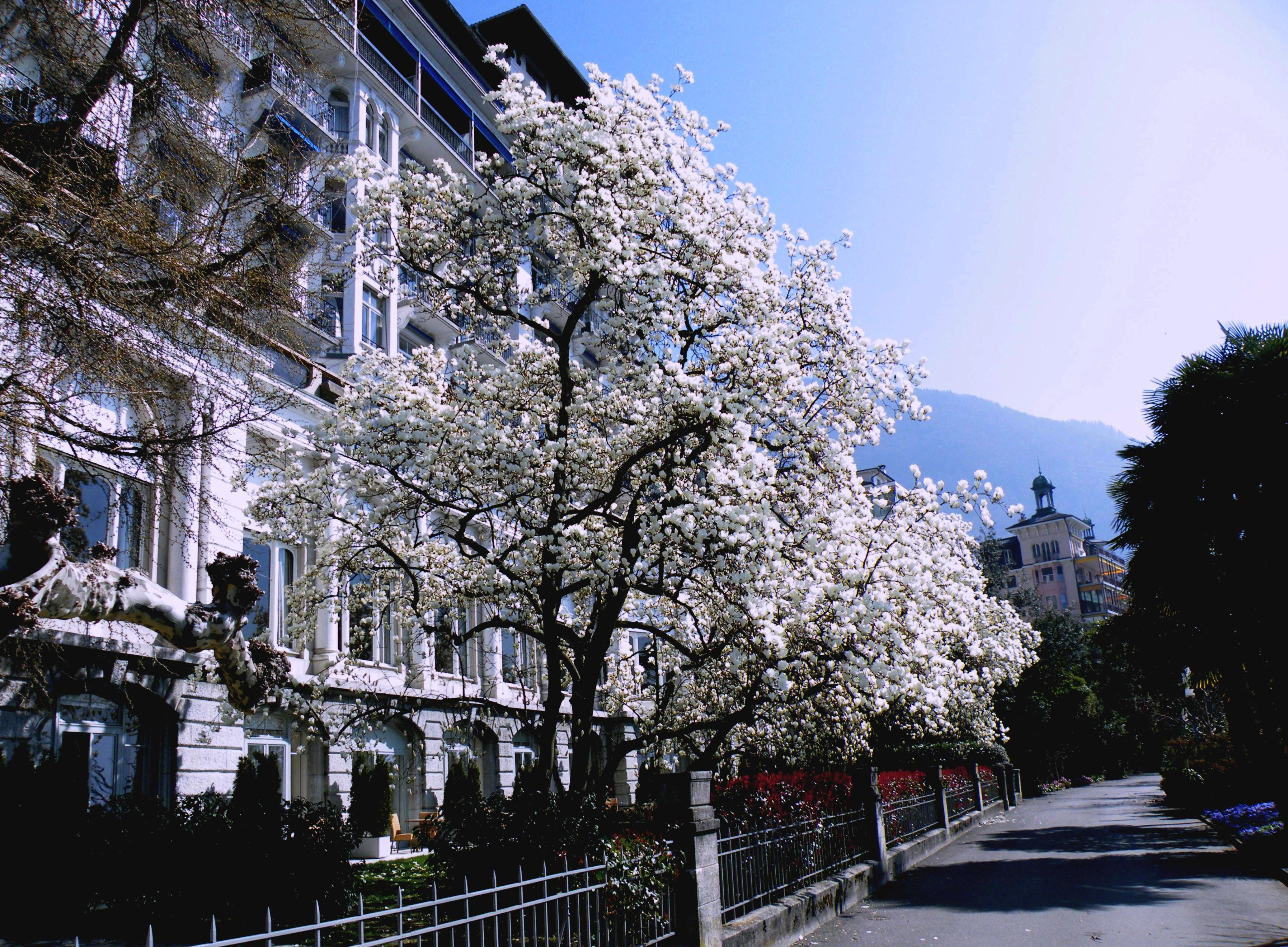 Magnolia tree in full glory, Montreux, Switzerland.